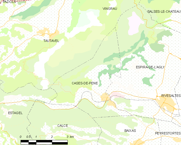 Map of French municipality